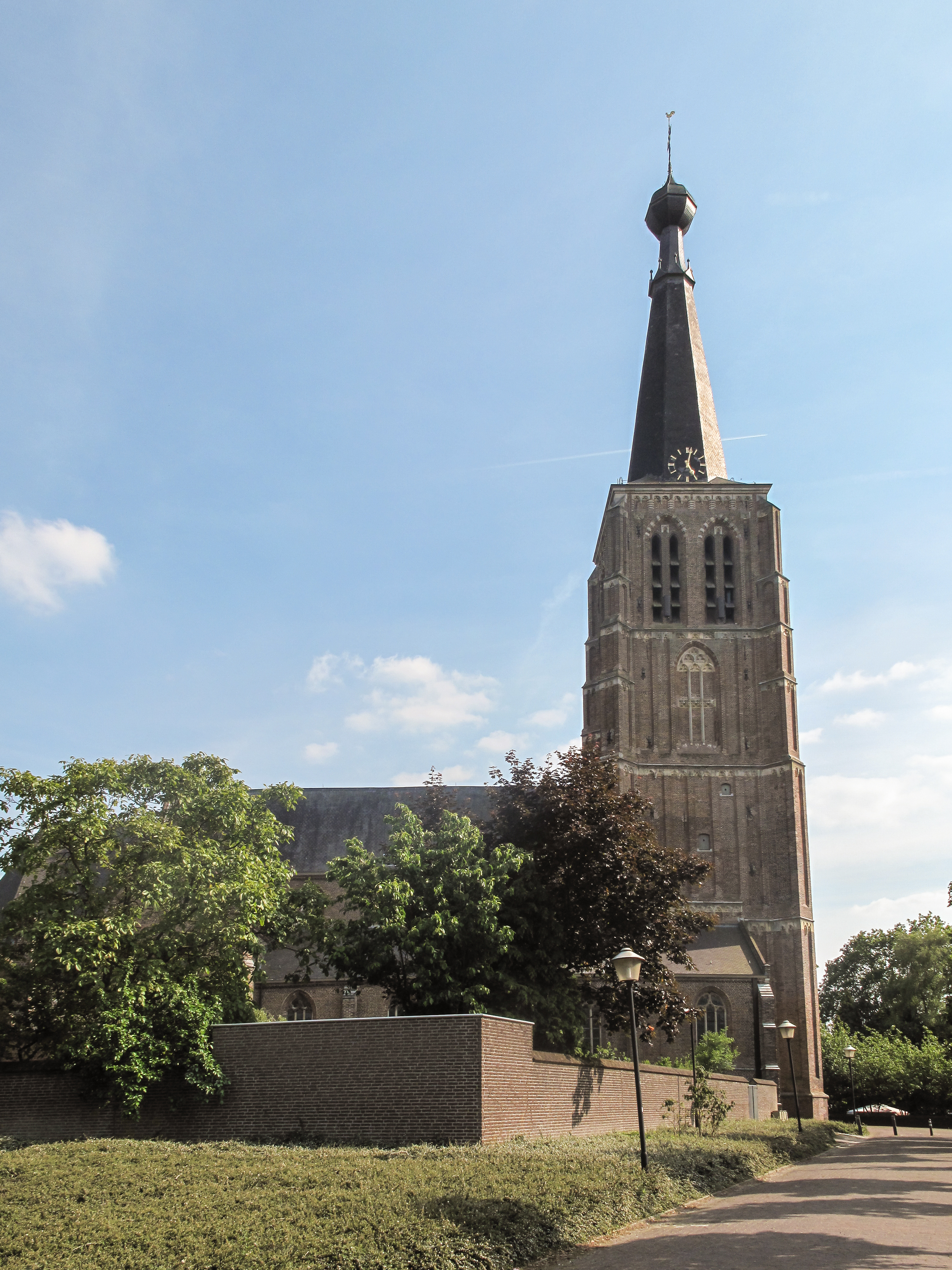 Leende, church: de Sint Petrus Bandenkerk